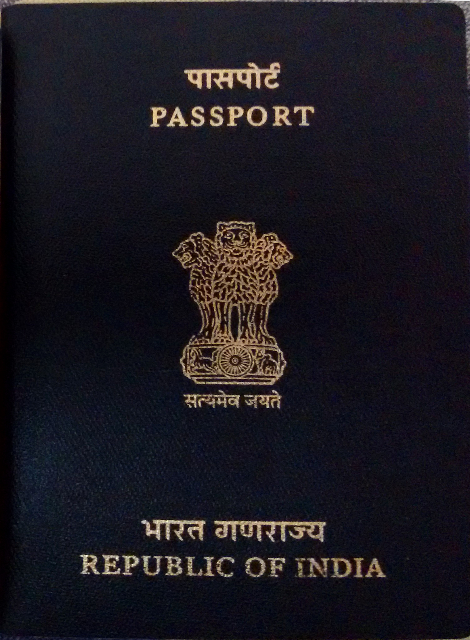 Cover of a passport (2015)